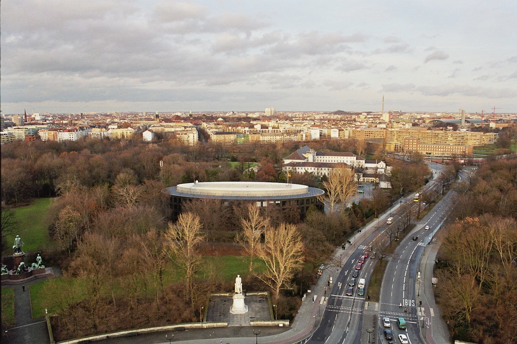 Germany, Berlin: View from the platform of the Victory Column (Siegessäule) over the Tiergarten to the Bundespräsidialamt and Bellevue Palace (Schloss Bellevue) along the Spreeweg.